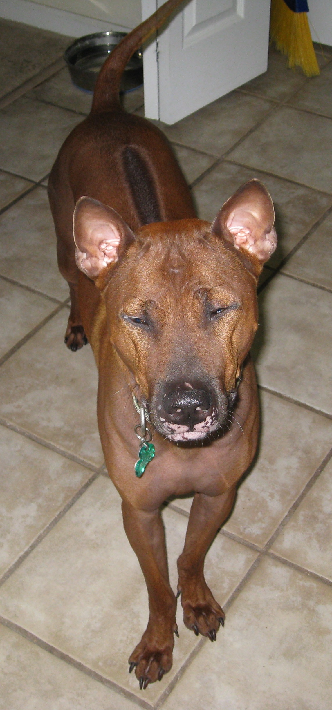 Super Red Thai Ridgeback